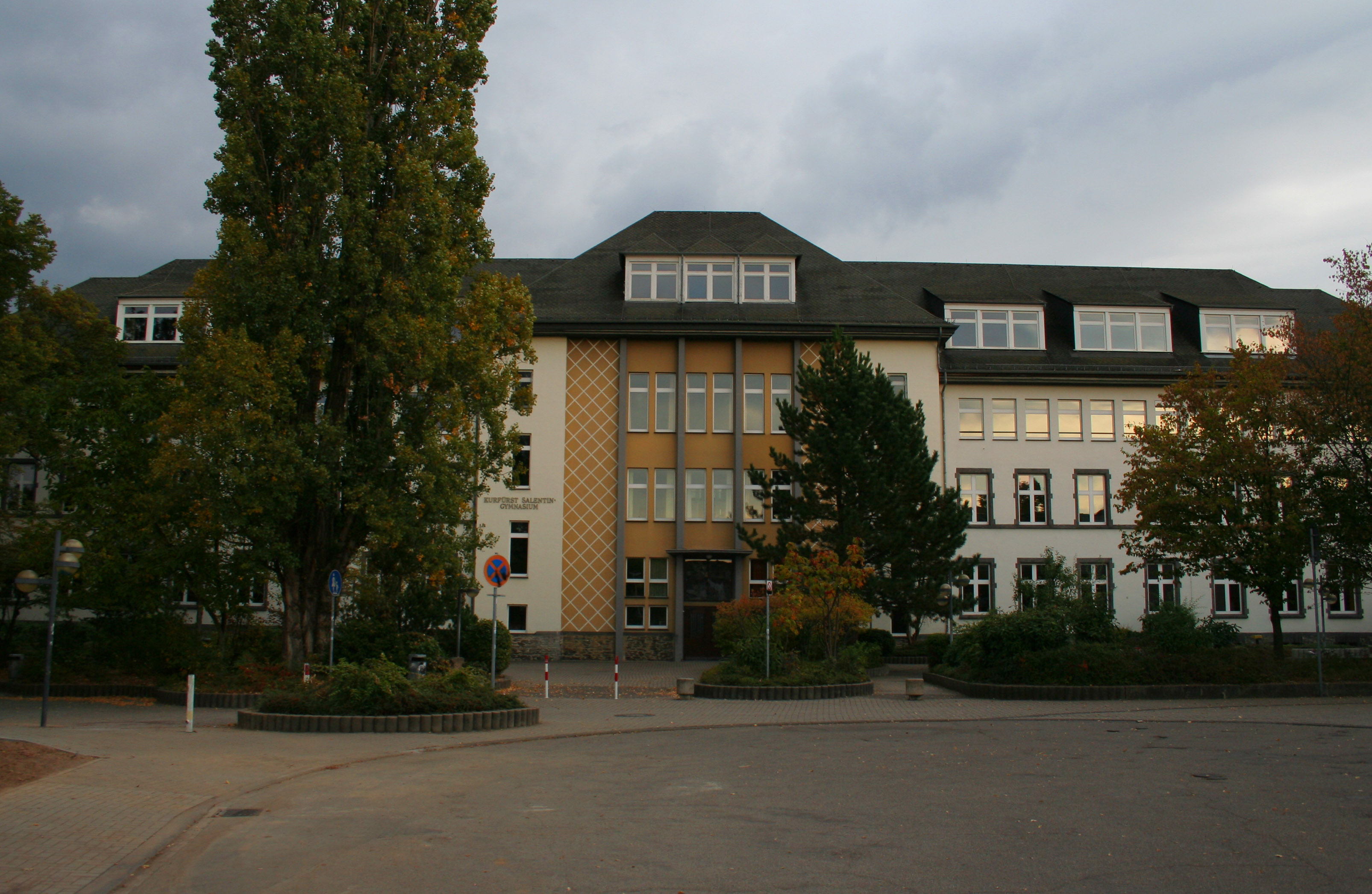 The old building of the Kurfürst-Salentin-Gymnasium in Andernach, Germany.